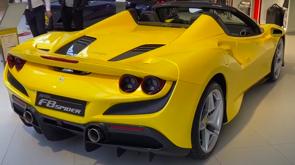 Ferrari F8 Spider at Niki Hasler Ferrari dealer in Basel on 11 March 2020